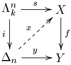 fibration lifting diagram, created with Latex using $$\xymatrix{ \Lambda^n_k \ar[r] \ar[d]_i & X \ar[d]^f \\ \Delta^n \ar[r]^g \ar[ur]^h & Y} $$ Jakob.scholbach 23:35, 2 May 2007 (UTC)